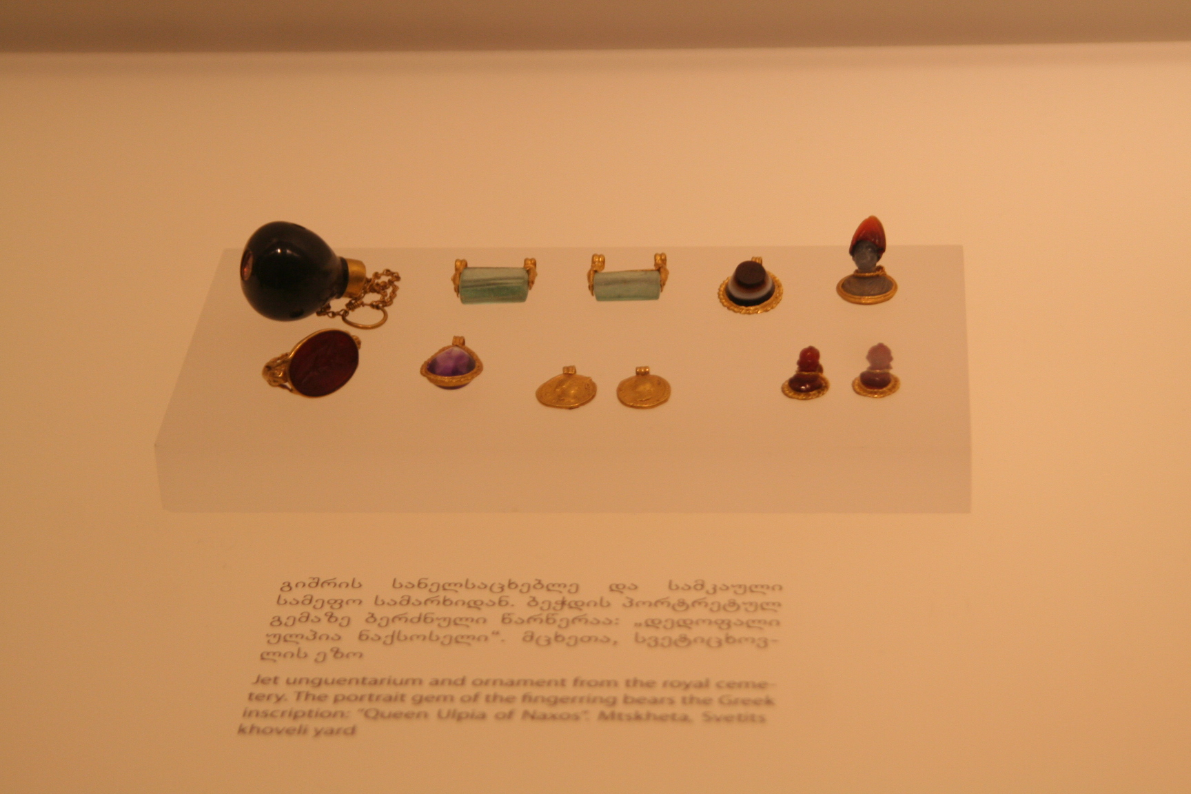 Simon Janashia Museum of Georgia